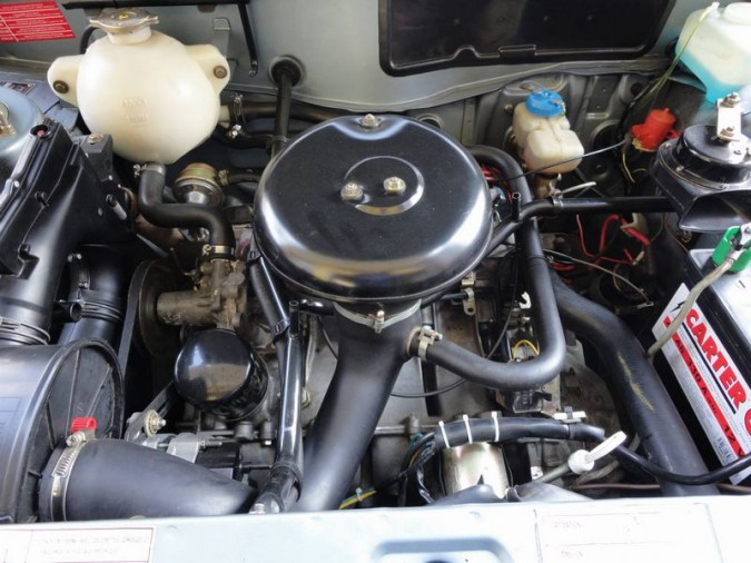 1,219 cc Peugeot XZ5 engine in a 1980 Peugeot 104 SR (chassis code 104A21). Well, the engine is lurking underneath all of the knobs and things, but at least the spare tire (which usually resides atop the engine) has been removed for this photo.